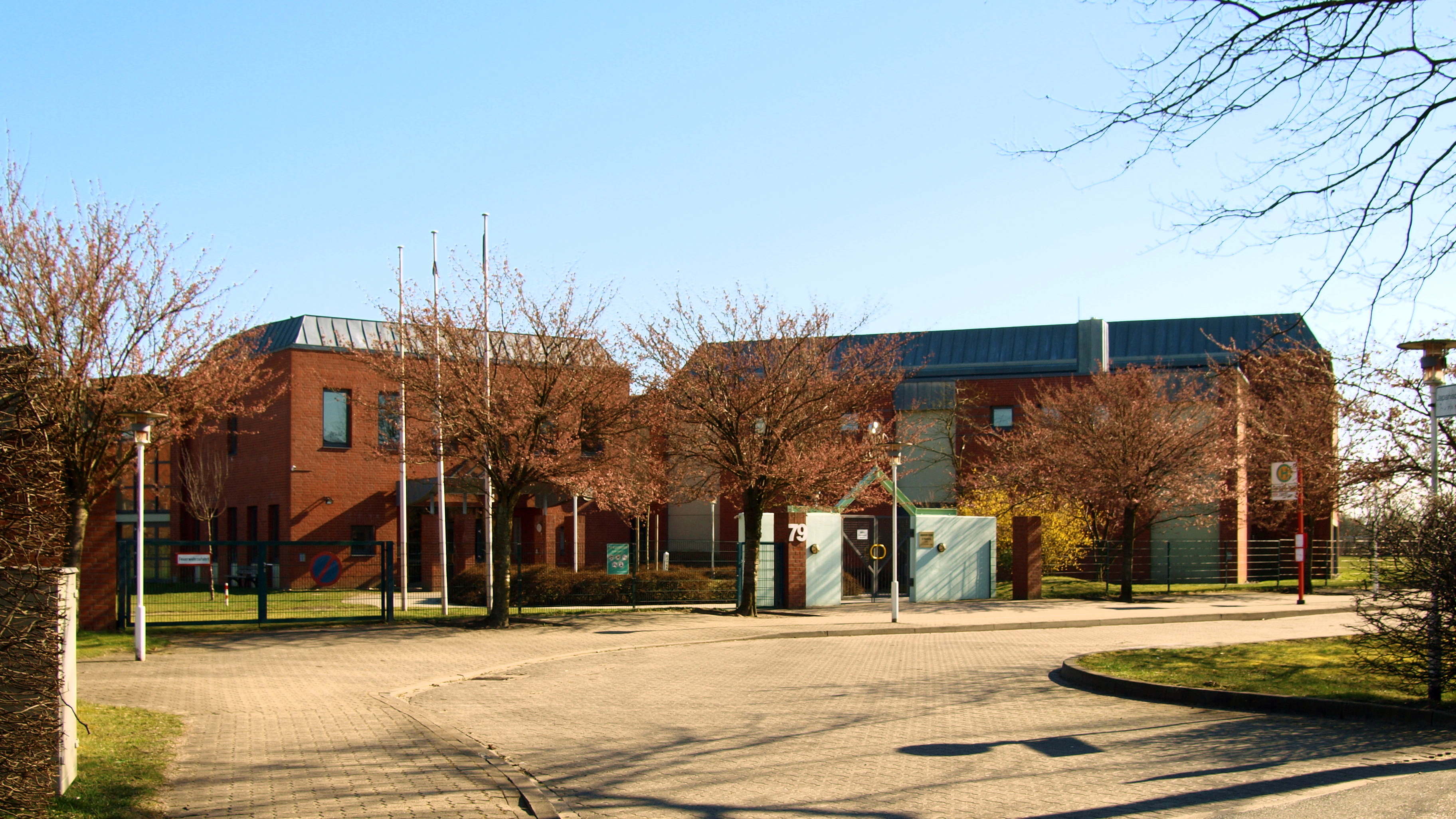 Japanese School Hamburg, in Halstenbek, District of Pinneberg, Germany.